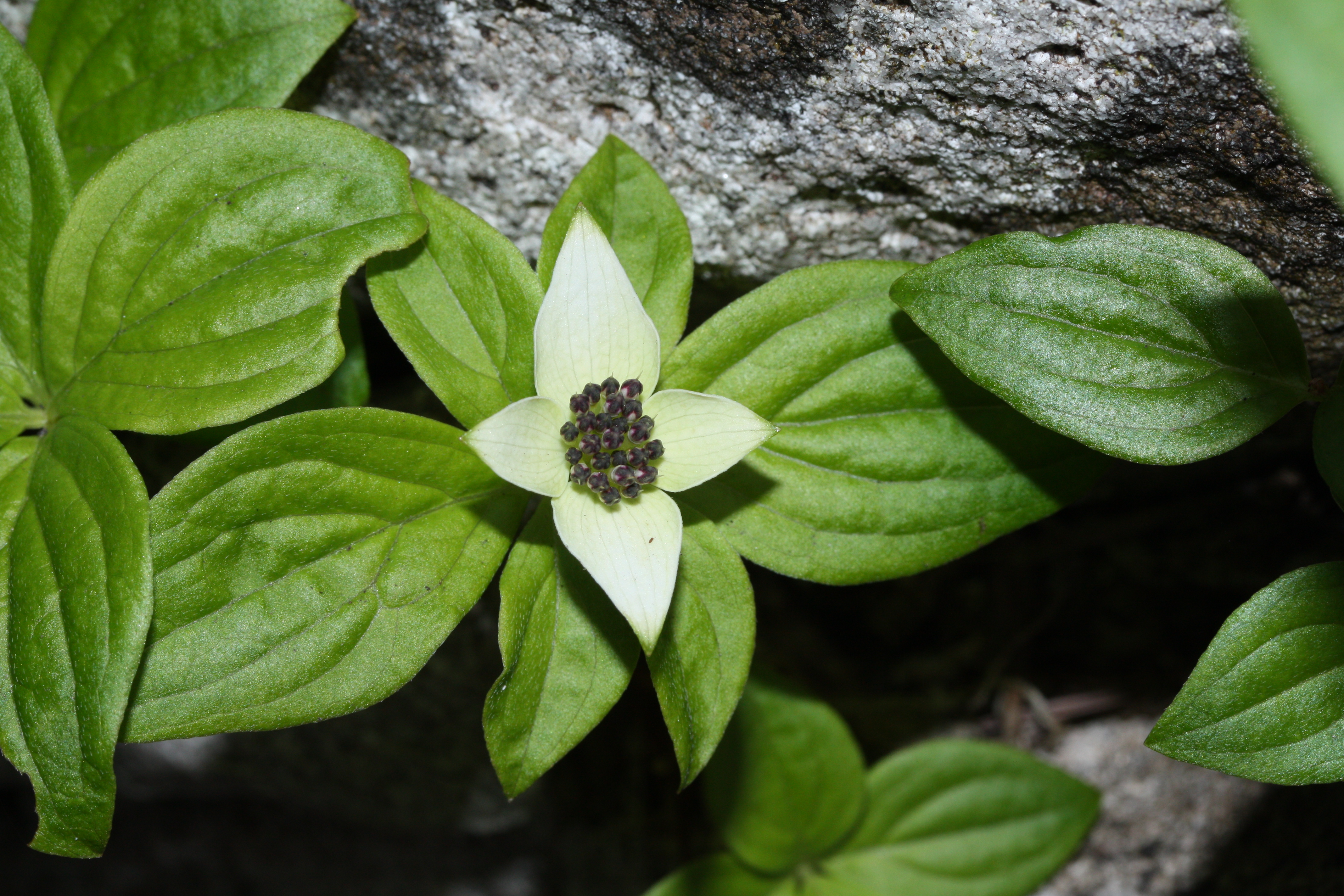 Bunchberry Dogwood